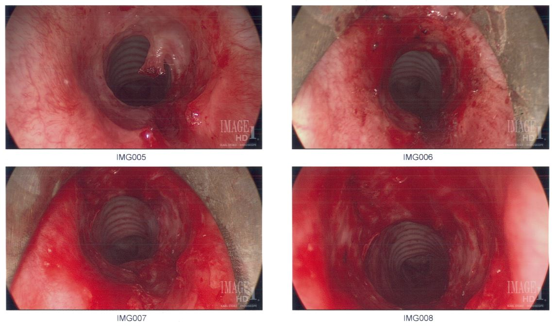 Post-surgical photographs of a 31 year old female patient who has undergone a micro-direct laryngoscopy involving laser removal of scar tissue and balloon dilation of the airway.